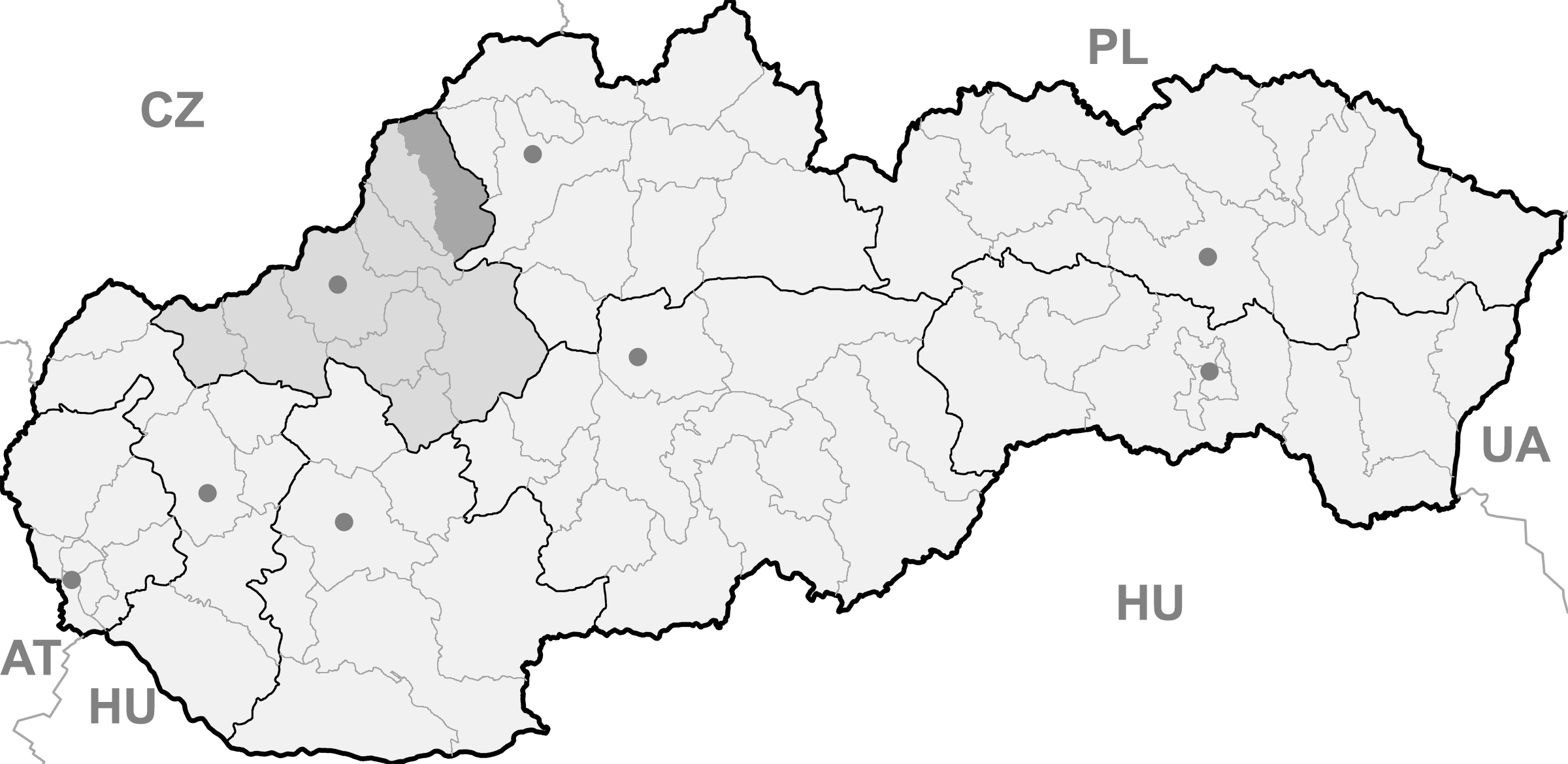 Map of Slovakia, Povazská Bystrica district and Trencin region highlighted